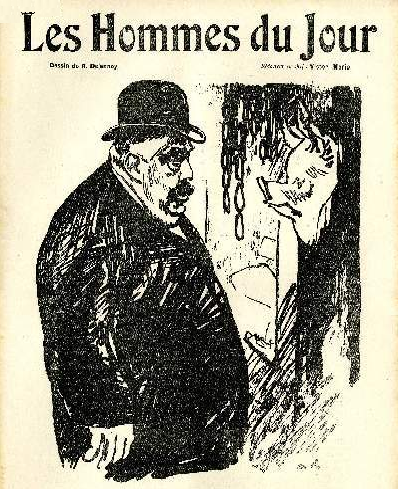 French Minister of Agriculture Joseph Ruau from Les Hommes de Jour #118